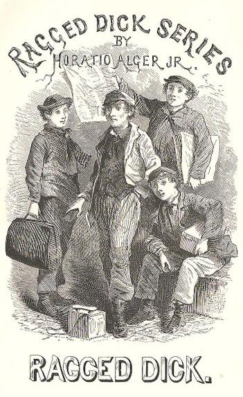 Frontispiece of the 1895 Henry T. Coates and Company edition of "Ragged Dick"